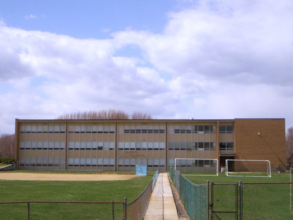 Mater Dei High School in New Monmouth, New Jersey. Taken in the Spring of 2007. This photo was taken from the street that runs parallel to Saint Mary's Grade school.